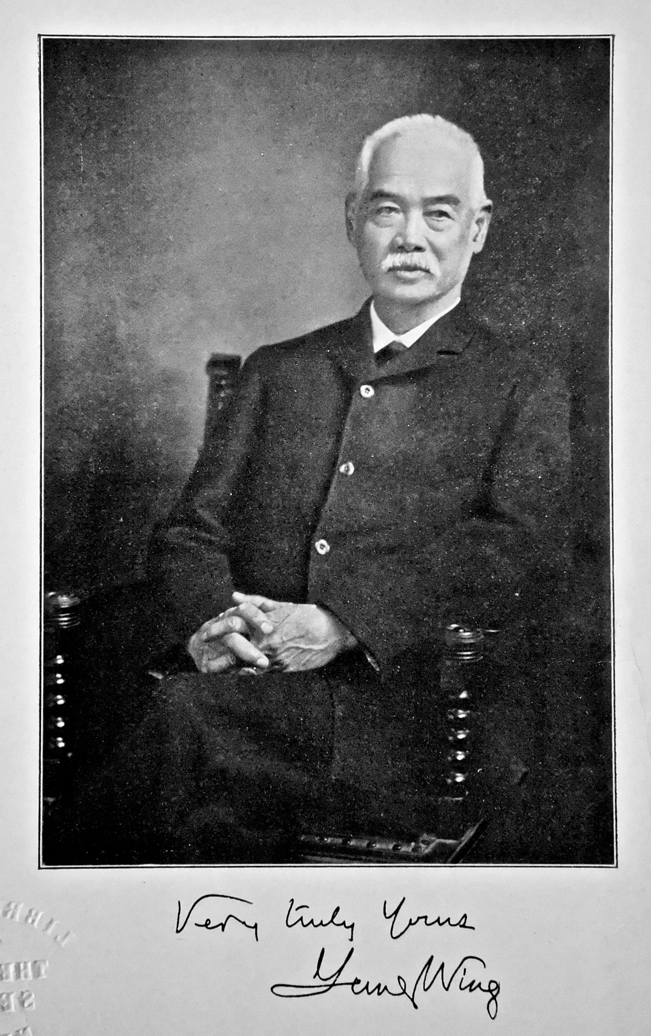 Portrait of Yung Wing used as frontispiece in his 1909 book, My Life in China and America, as found in the library of the Union Theological Seminary (Columbia).